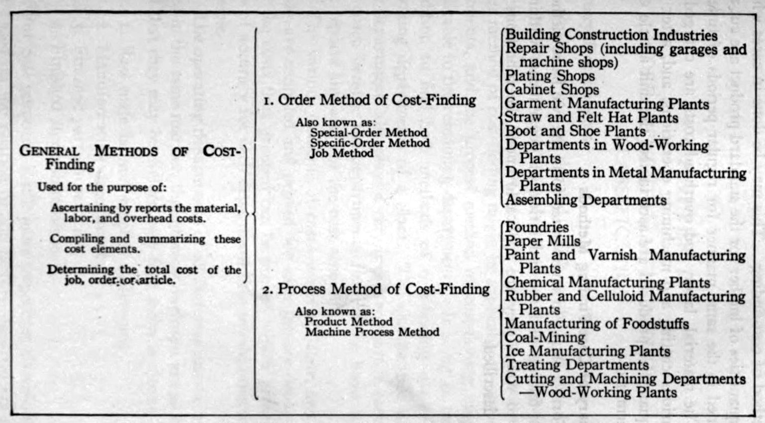 Chart Showing Methods of Cost-Finding Applied to Various Industries, 1919